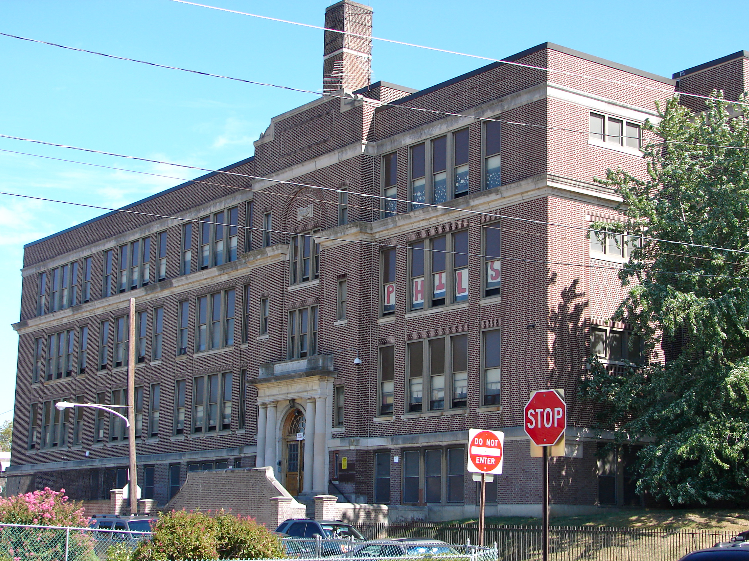 Hamilton Disston School in Philadelphia on the NRHP since November 18, 1988. At 6801 Cottage Street in the Tacony neighborhood of NE Philly. Note that this building should not be confused with the Mary Disston School of Philadelphia (also on NRHP), or the Disston Recreation Center, both of which border Disston Street about 3 blocks north of the Hamilton Disston School.